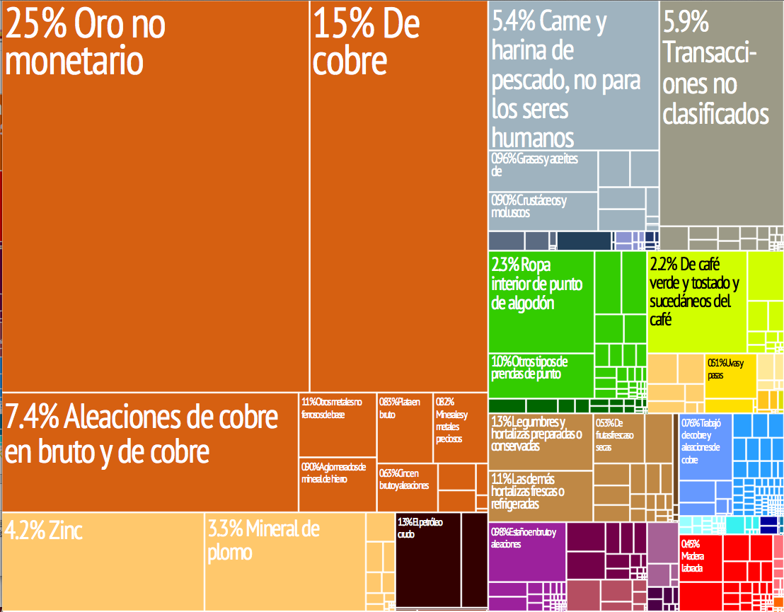 A proportional representation of Peru's exports.